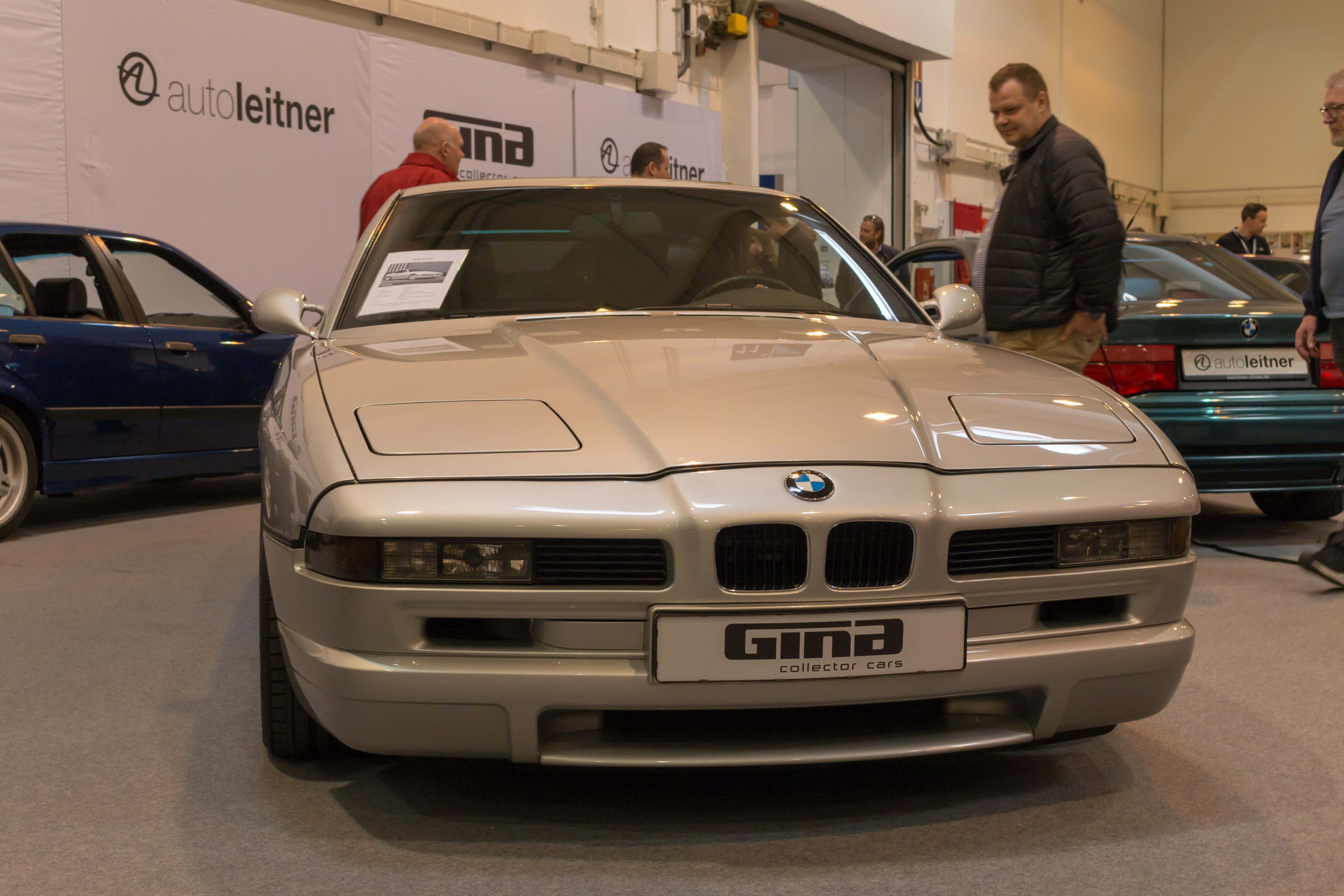 Techno Classica 2018, Essen